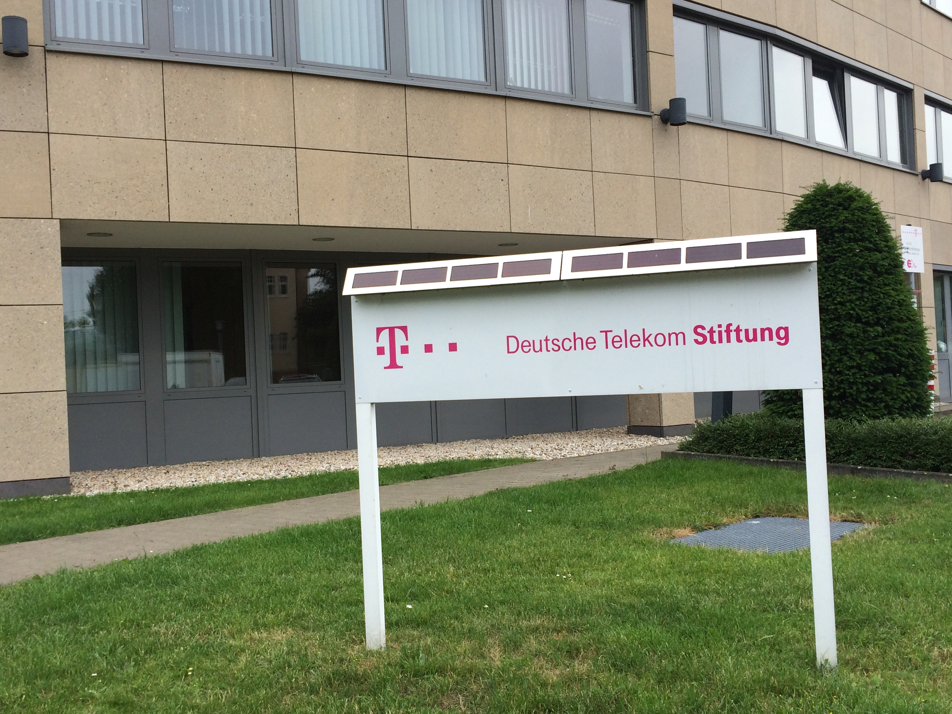 Schild mit dem Logo der Deutsche Telekom Stiftung vor dem Gebäude in Bonn